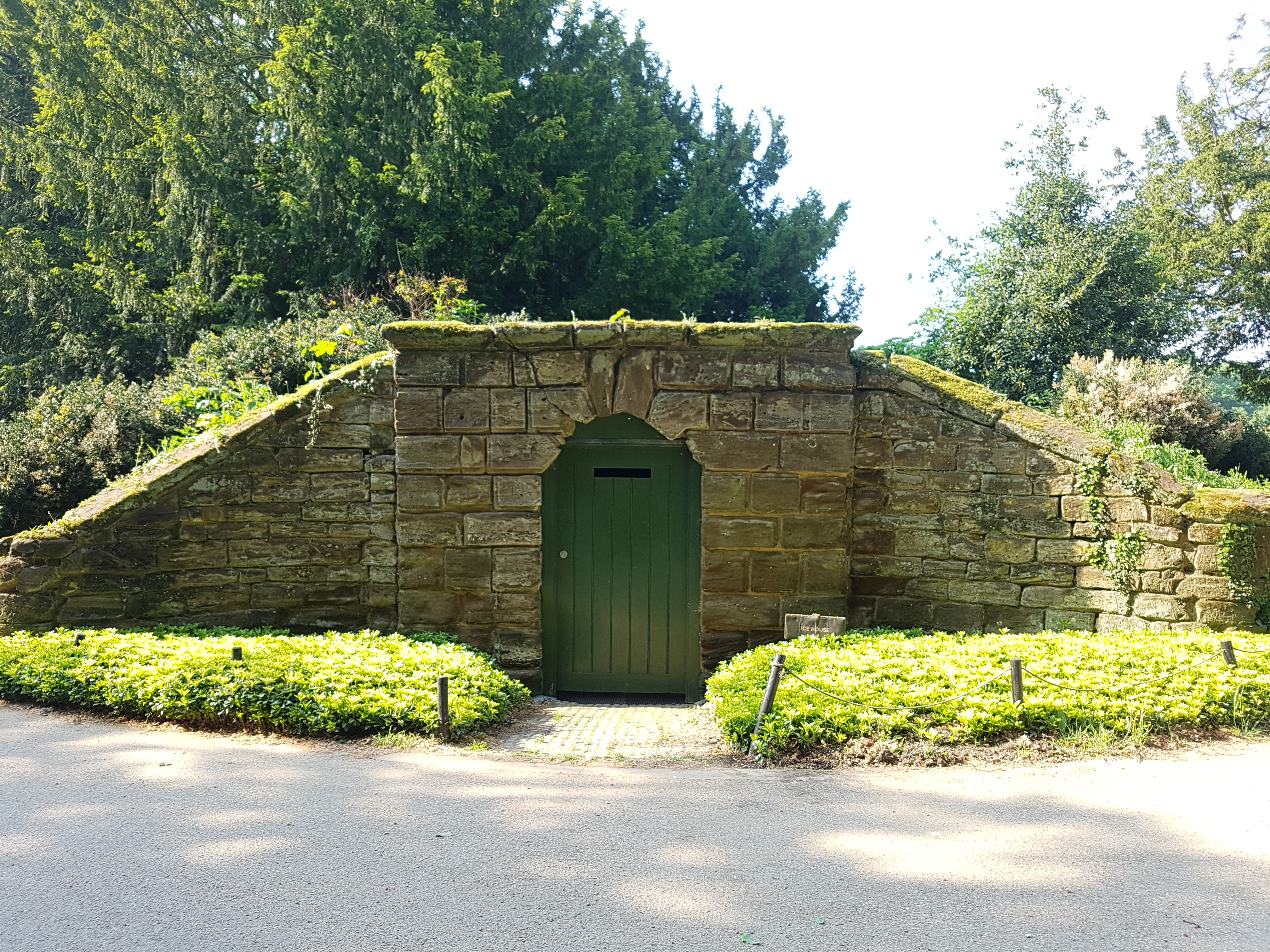 The Ice House at Moggerhanger Park, Moggerhanger, Bedfordshire. The house is open to the public at selected times from May - September